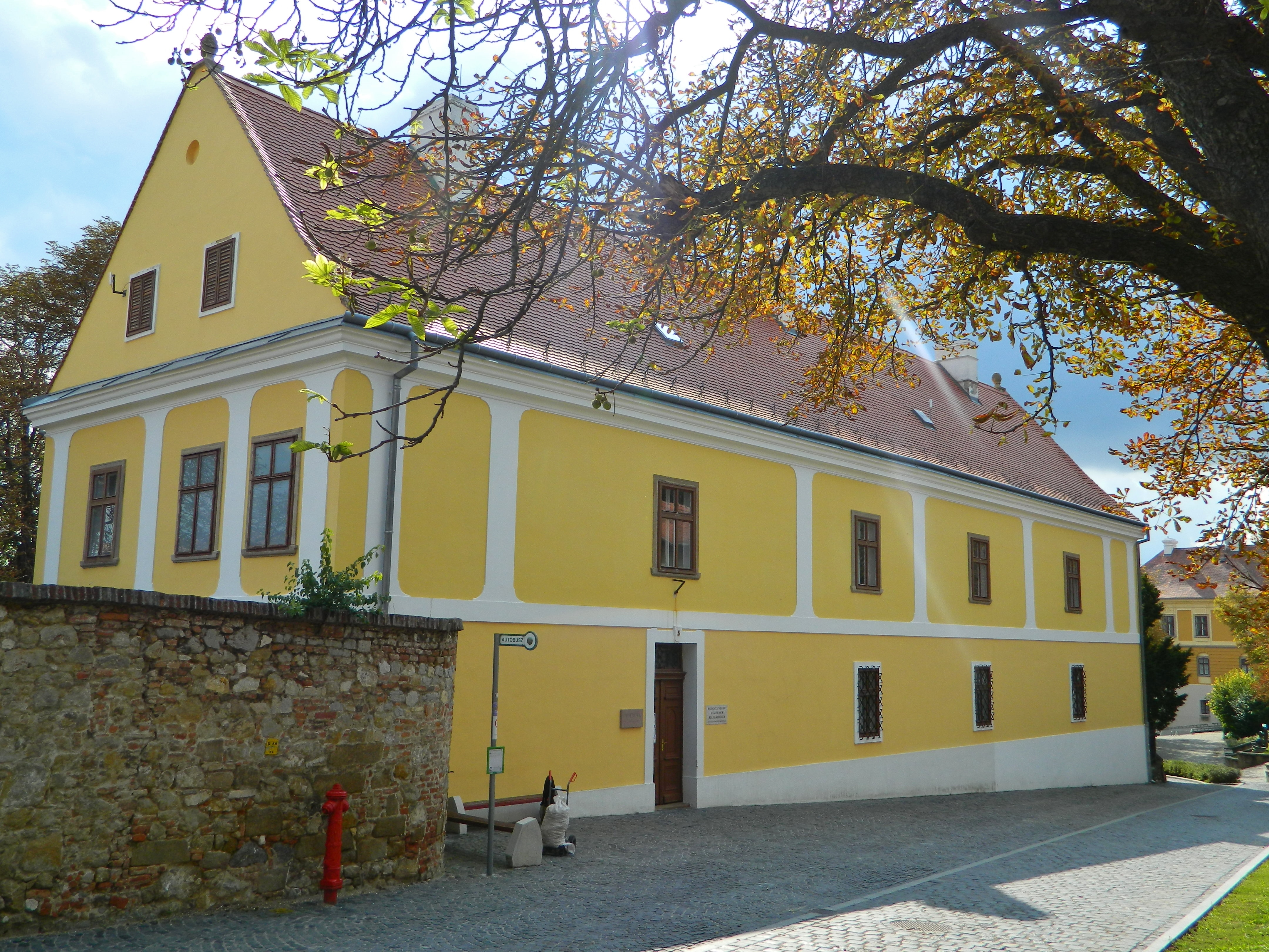 Kannonok house (18 century). The central building of Janus Pannonius Museum